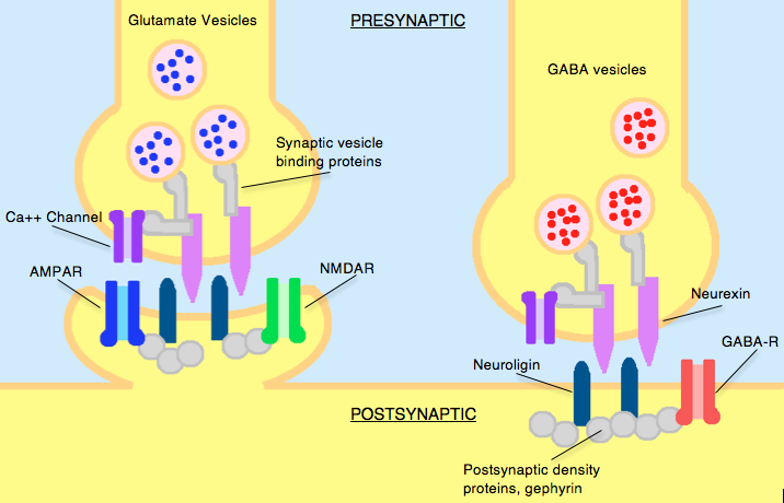 This is a cartoon of the interaction between neuroligin and neurexin in both a glutamatergic and GABAergic synapse.